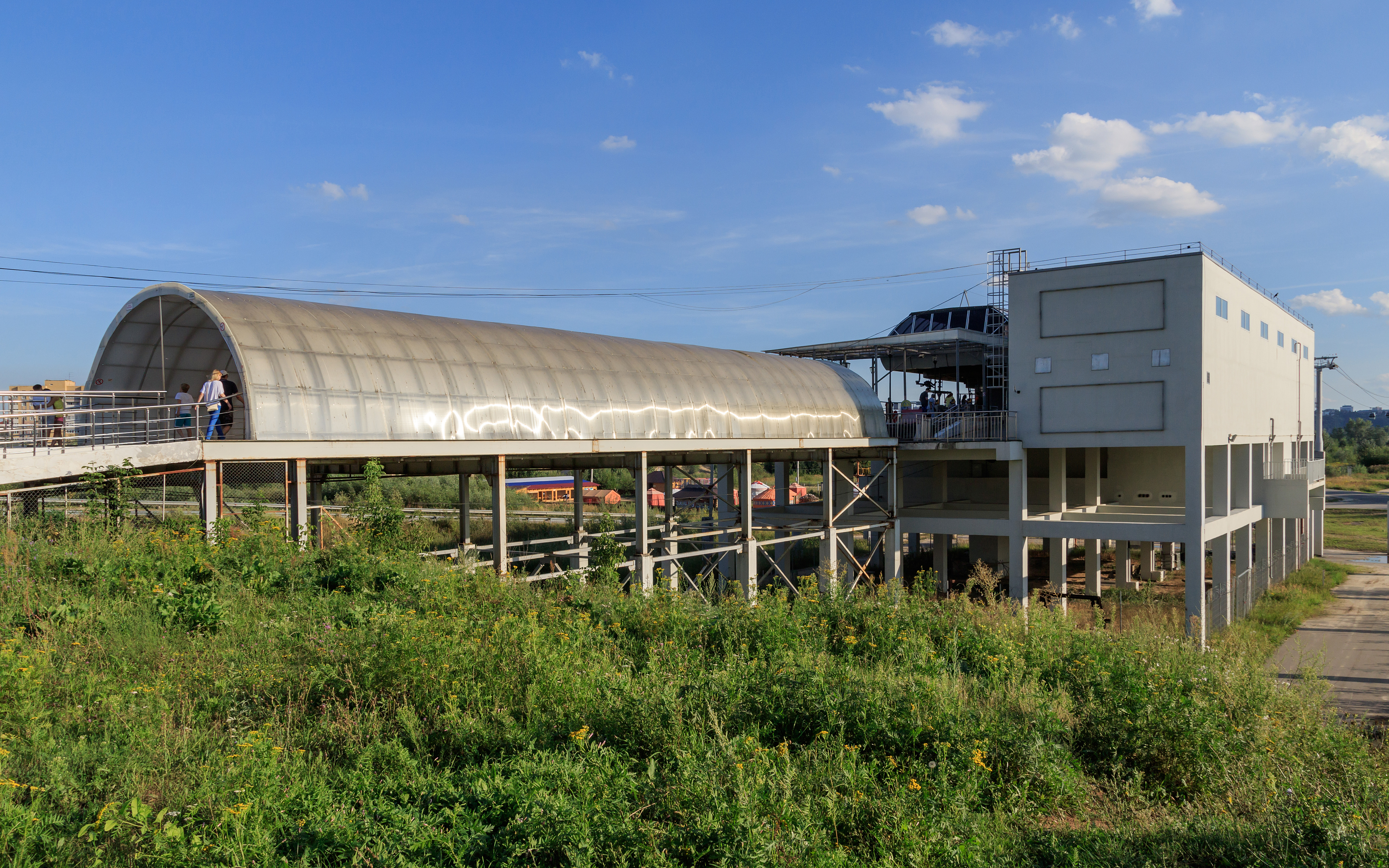 Nizhny Novgorod–Bor Volga cableway. Lower (Borskaya) station. Bor, Russia.